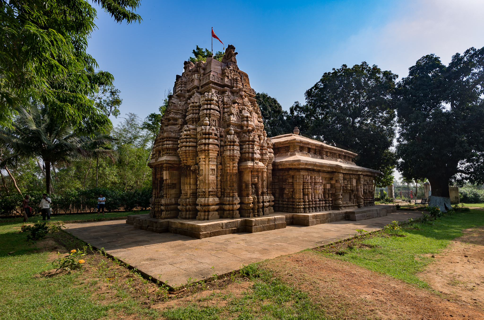 Varahi Devi Temple - In Kakhara Style Kalinga Architecture